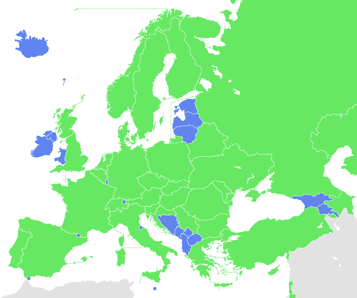 Based on File:UEFA members Champs League group stage.gif, File:BlankMap-World-UK.png (itself based on File:BlankMap-World-v5.png) Serbian FA is the successor association but Montenegro is not. Non of the Montenegrin team was qualified either before 2006.